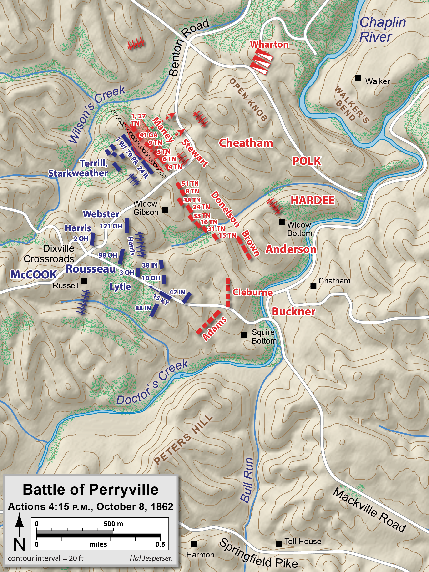 Map of the Battle of Perryville of the American Civil War